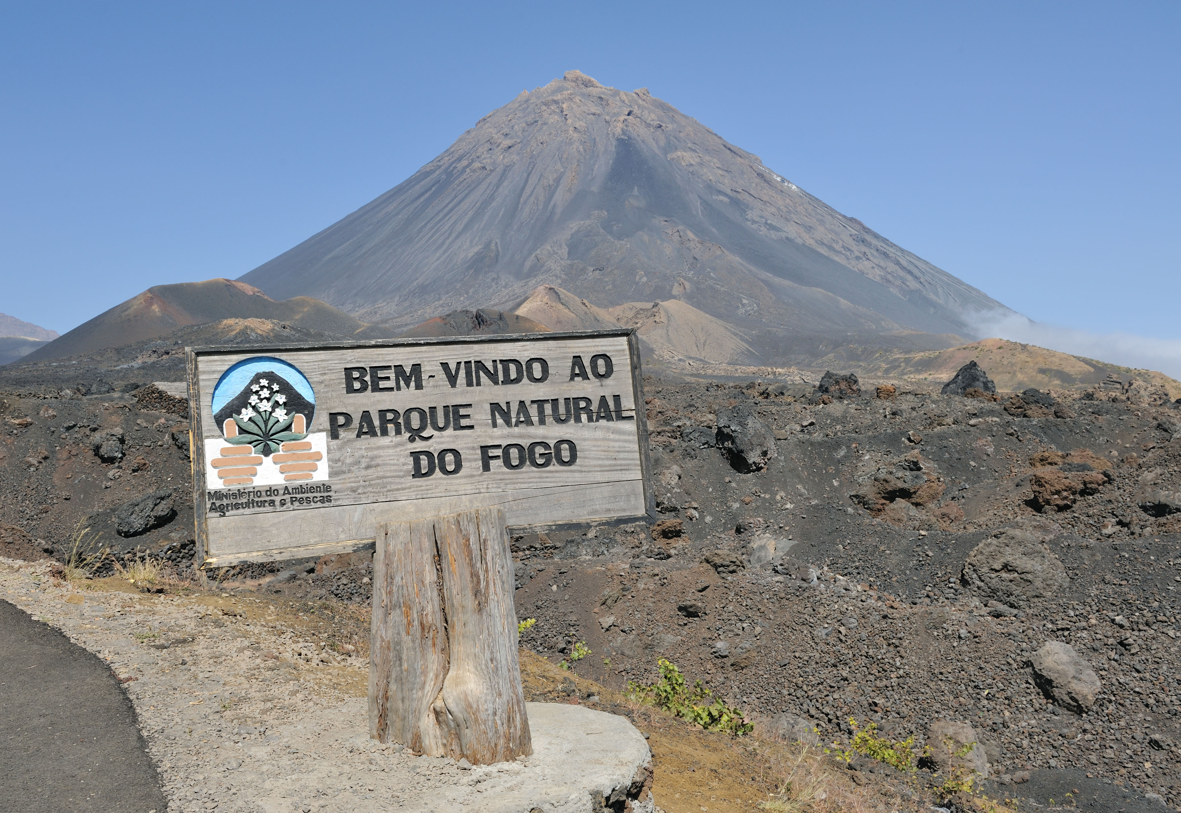 Cape Verde, island of Fogo: nature park panel and Pico do Fogo (2829 m).